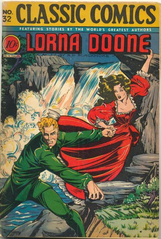 Cover scan of a Classics Comics book